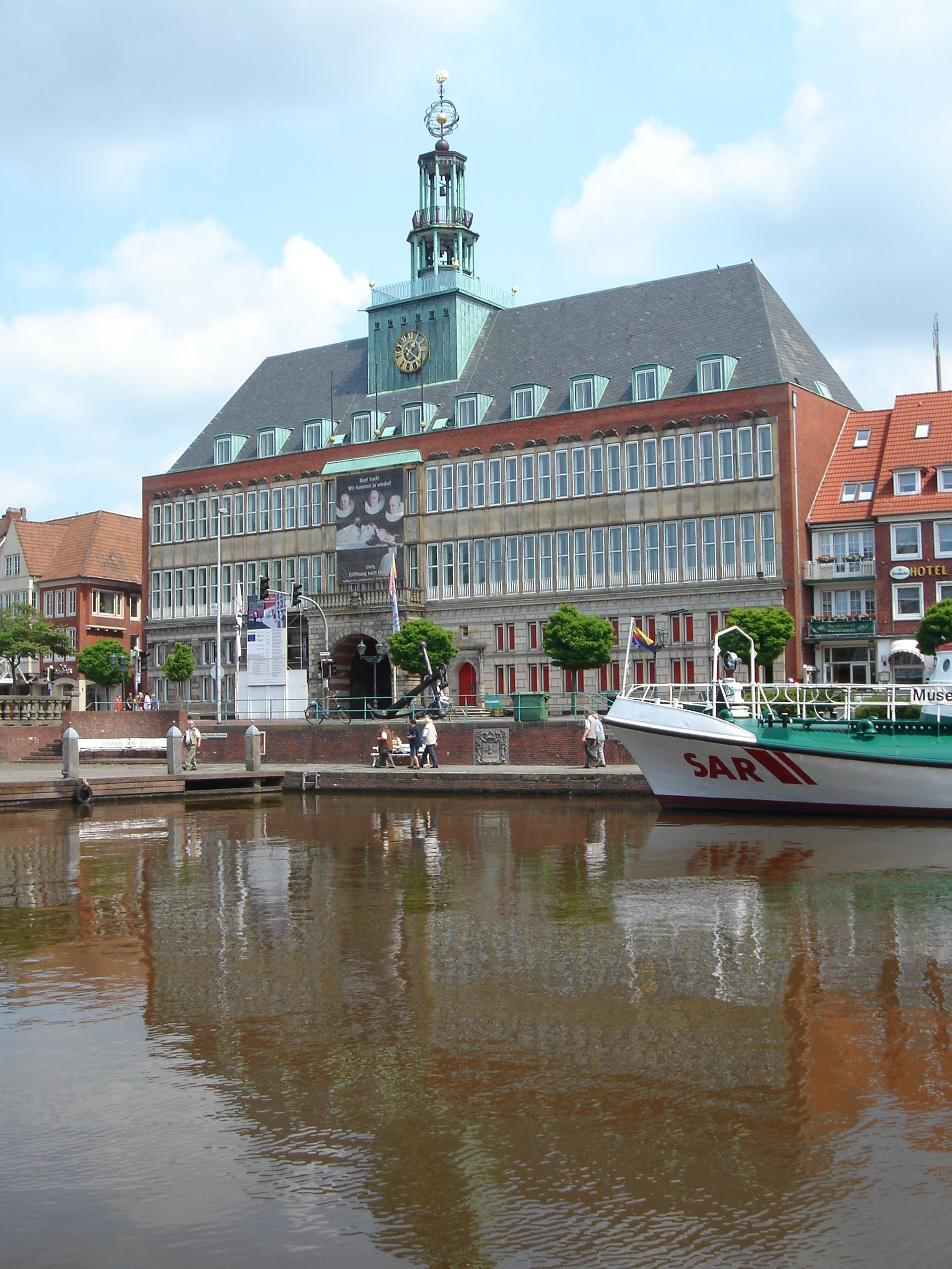 Emden (Lower Saxony, Germany), city hall